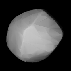 3D convex shape model of 1021 Flammario, computed using light curve inversion techniques. J. Hanuš, J. Ďurech, M. Brož, B. D. Warner (June 2011). "A study of asteroid pole-latitude distribution based on an extended set of shape models derived by the lightcurve inversion method". Astronomy and Astrophysics 530: A134. ISSN 0004-6361. arXiv